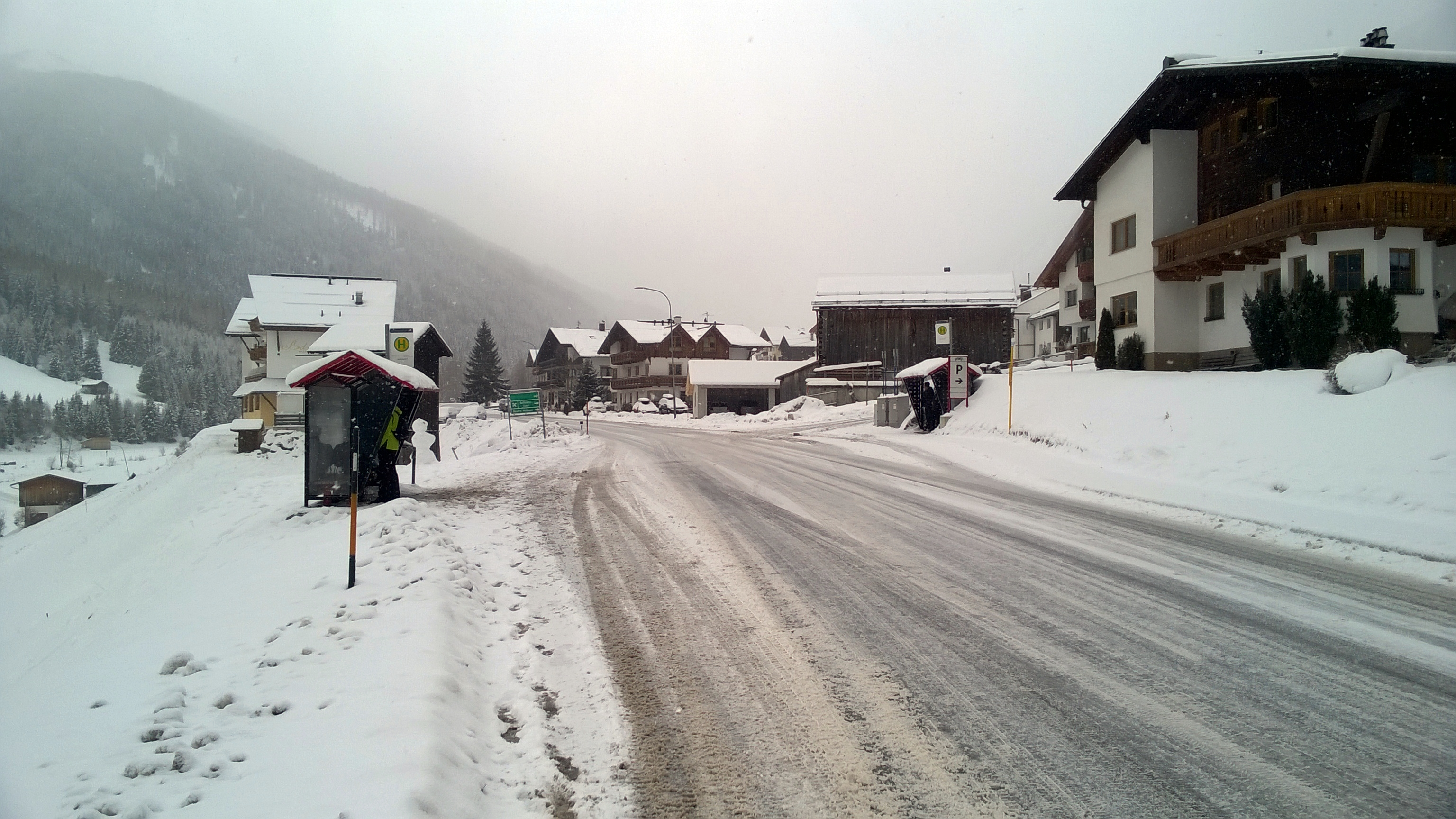 Mathon / Ischgl / Austria / Tirol